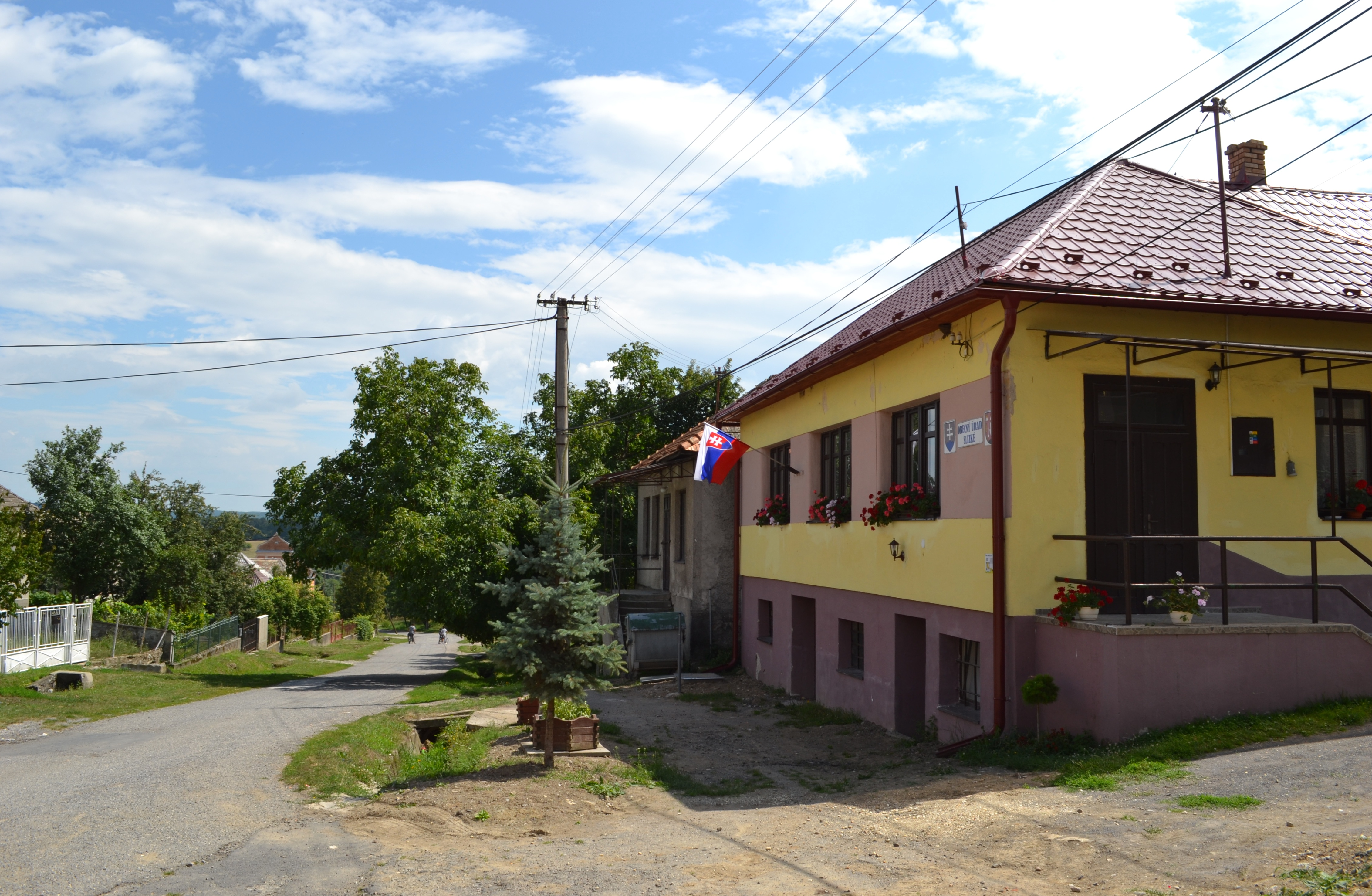 Municipal office in the village Slizké